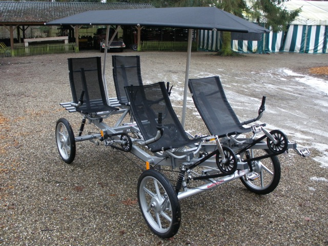 Netherlands made four wheel human powered vehicle with shock absorbers and recumbent pedaling position